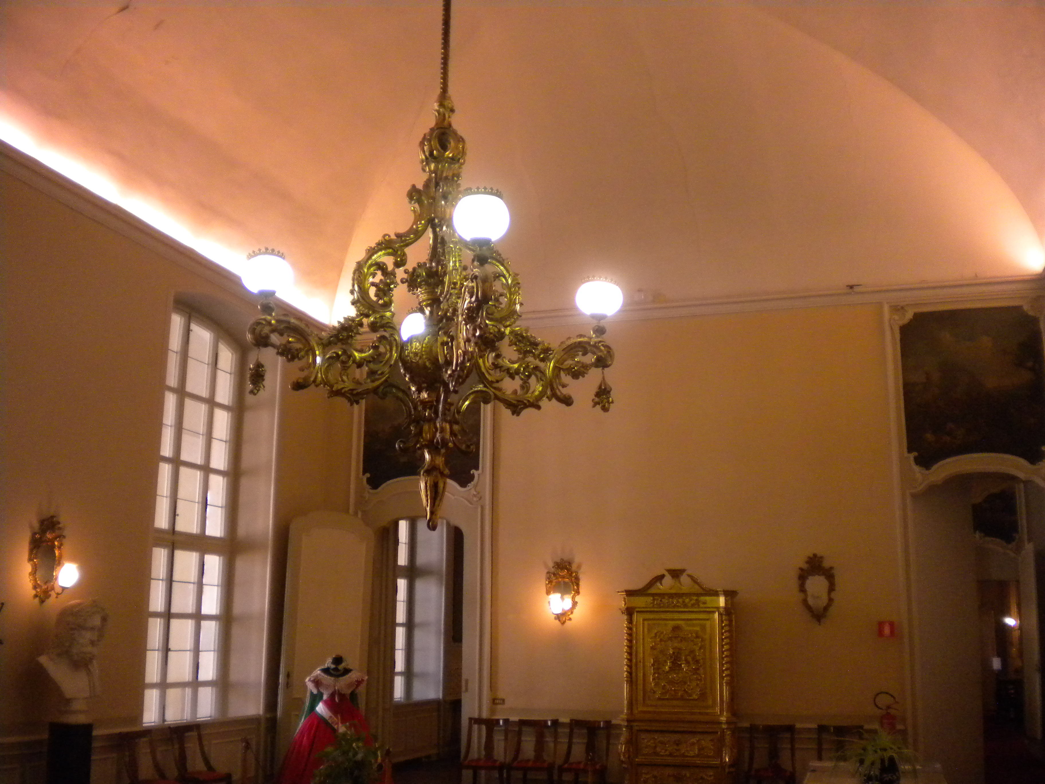 chandelier